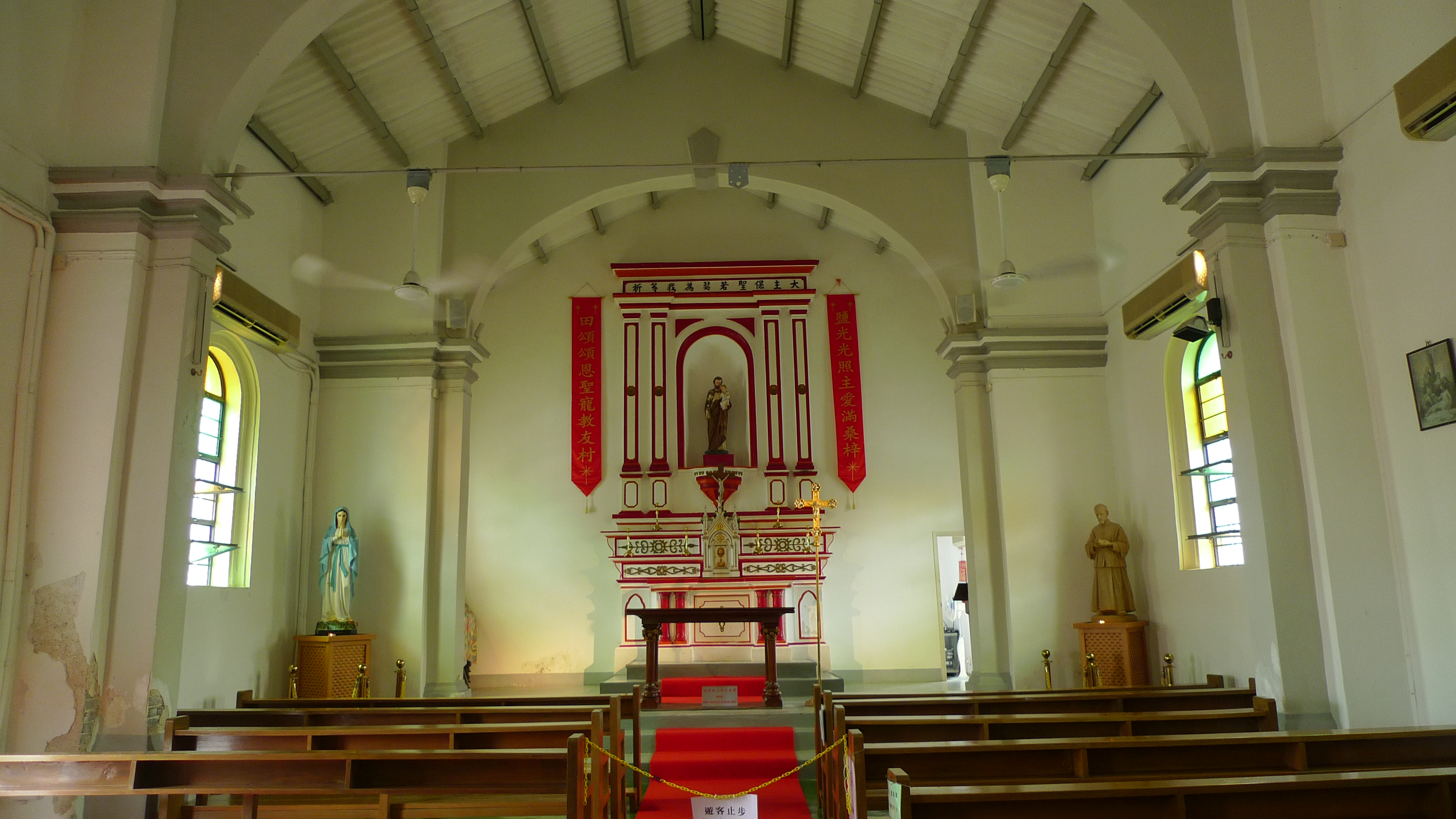 St Joseph's Chapel in Yim Tin Tsai